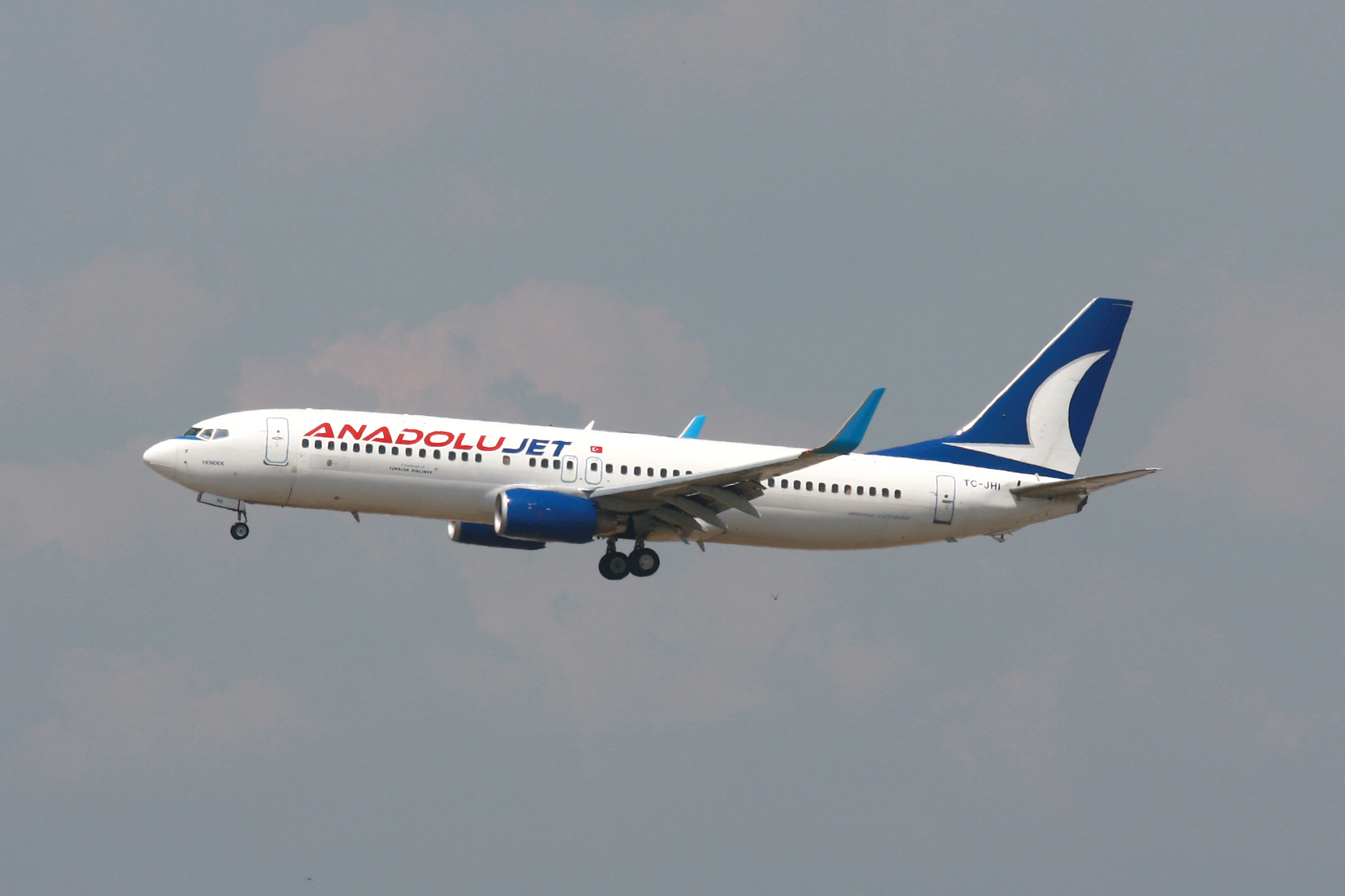 A Boeing 737-800 of AnadoluJet landing at Frankfurt Airport